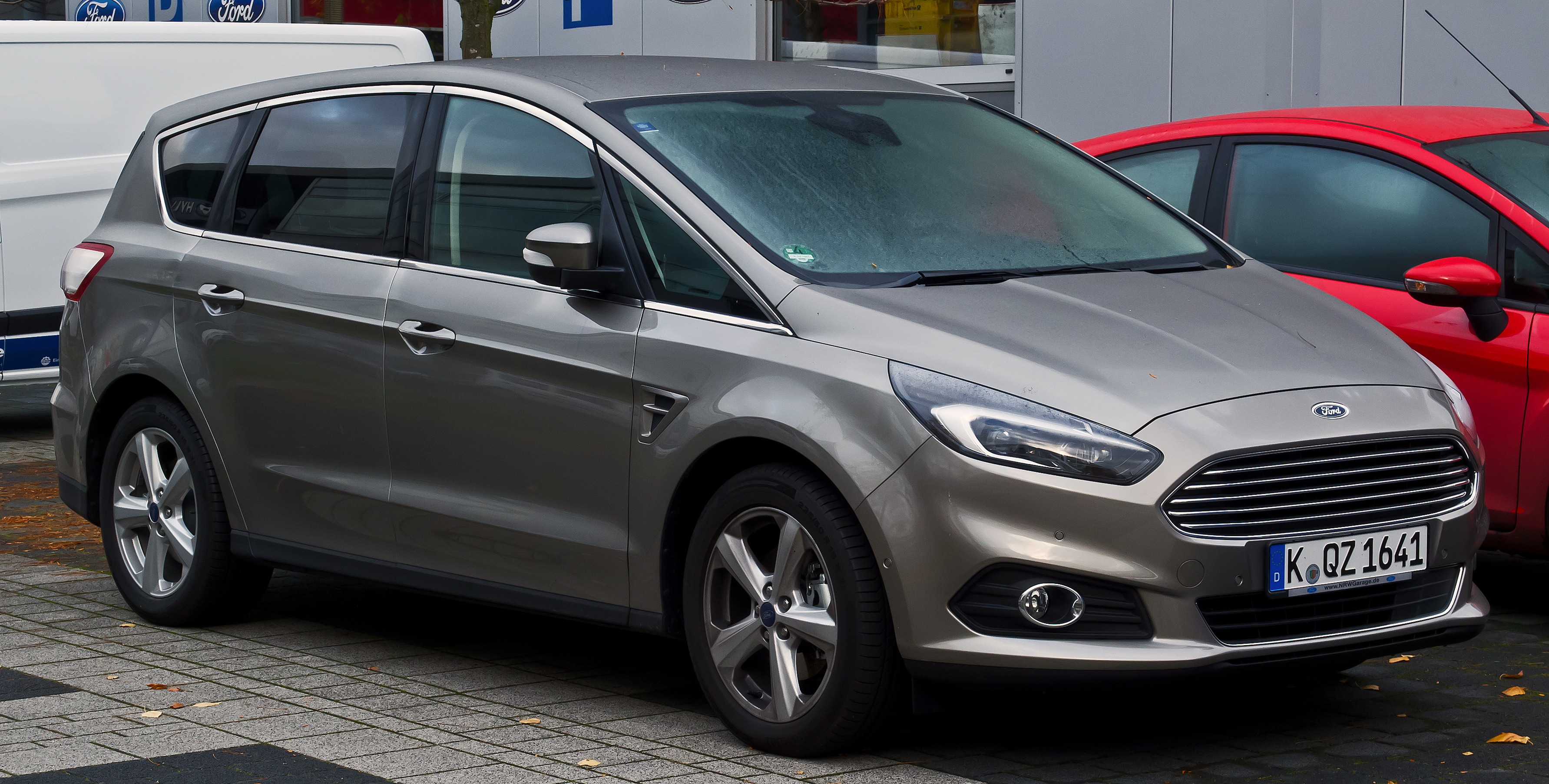 Ford S-Max Titanium (II)